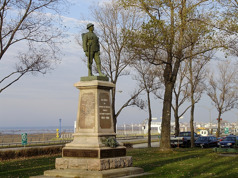 Monument for the Brave men from Rimouski, Qc, Canada.